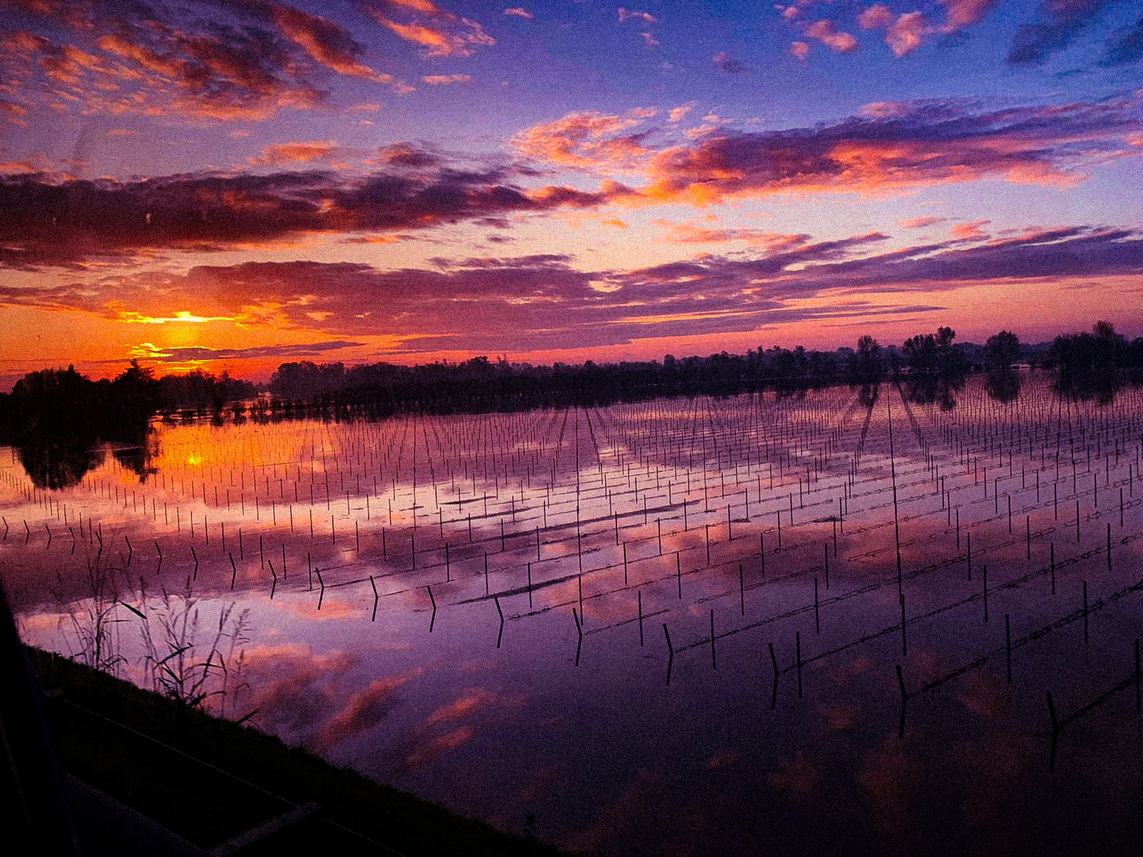 Colorful sunrise landscape after the flood. This photo of mine has been published in Luca Zaia's Instagram profile,(@zaiaufficiale) the president of my region, Veneto. He said this photo is gives hope to the victims of the flood.